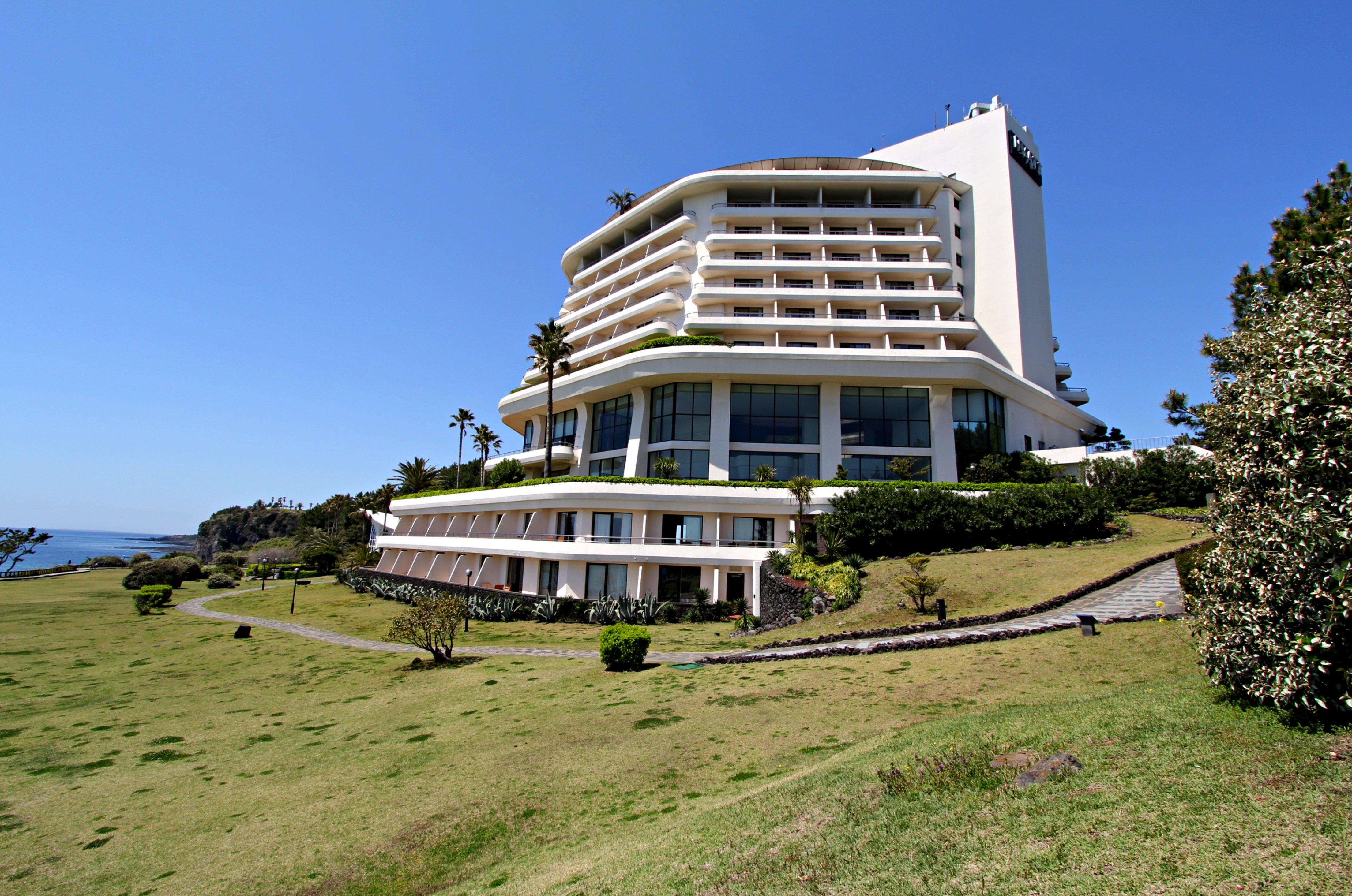 Hyatt Regency hotel, Jeju Island, South Korea.